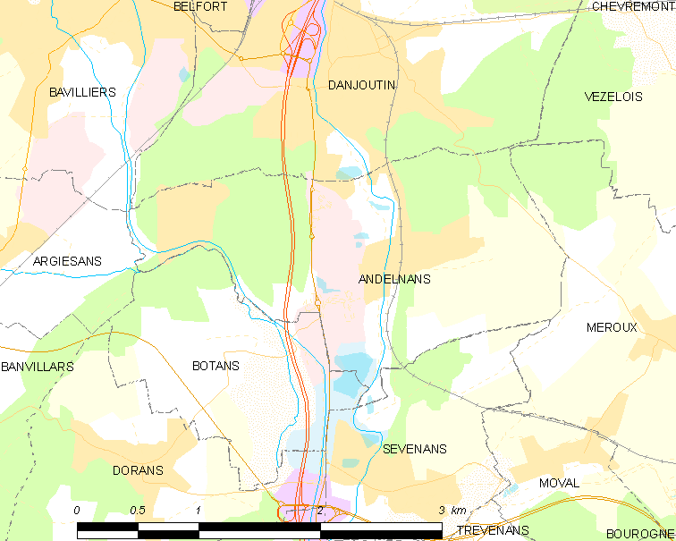 Map of French municipality Andelnans